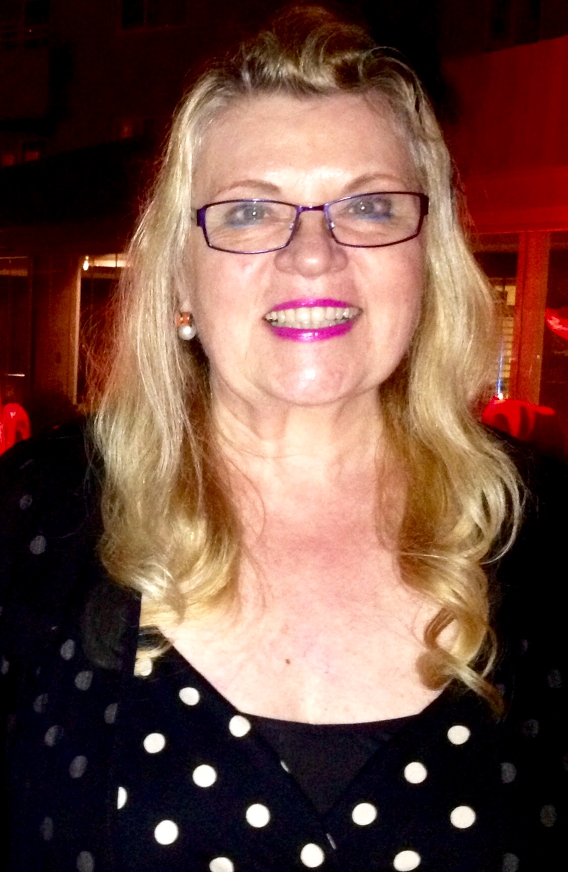 Eleonora Luthander picture